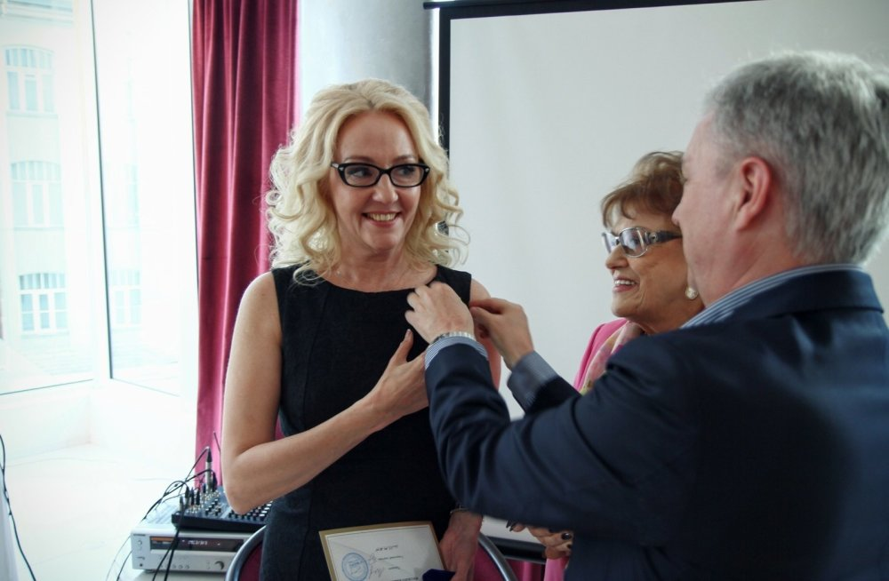 Pushkin premier